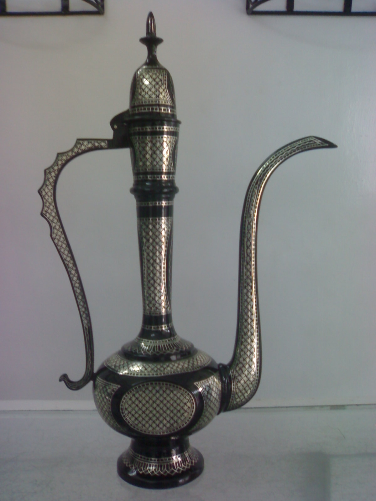 This is a picture of Bidri ware.